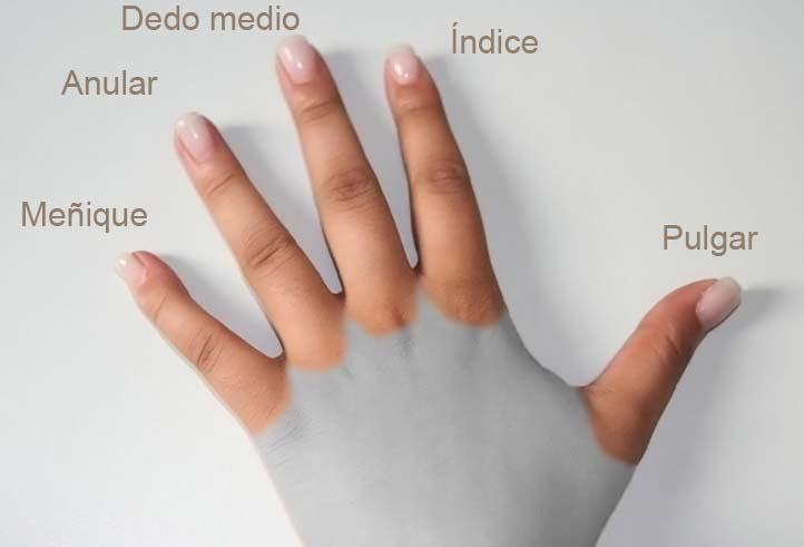 Fingers of the left hanksfhewfh WHEF'd.